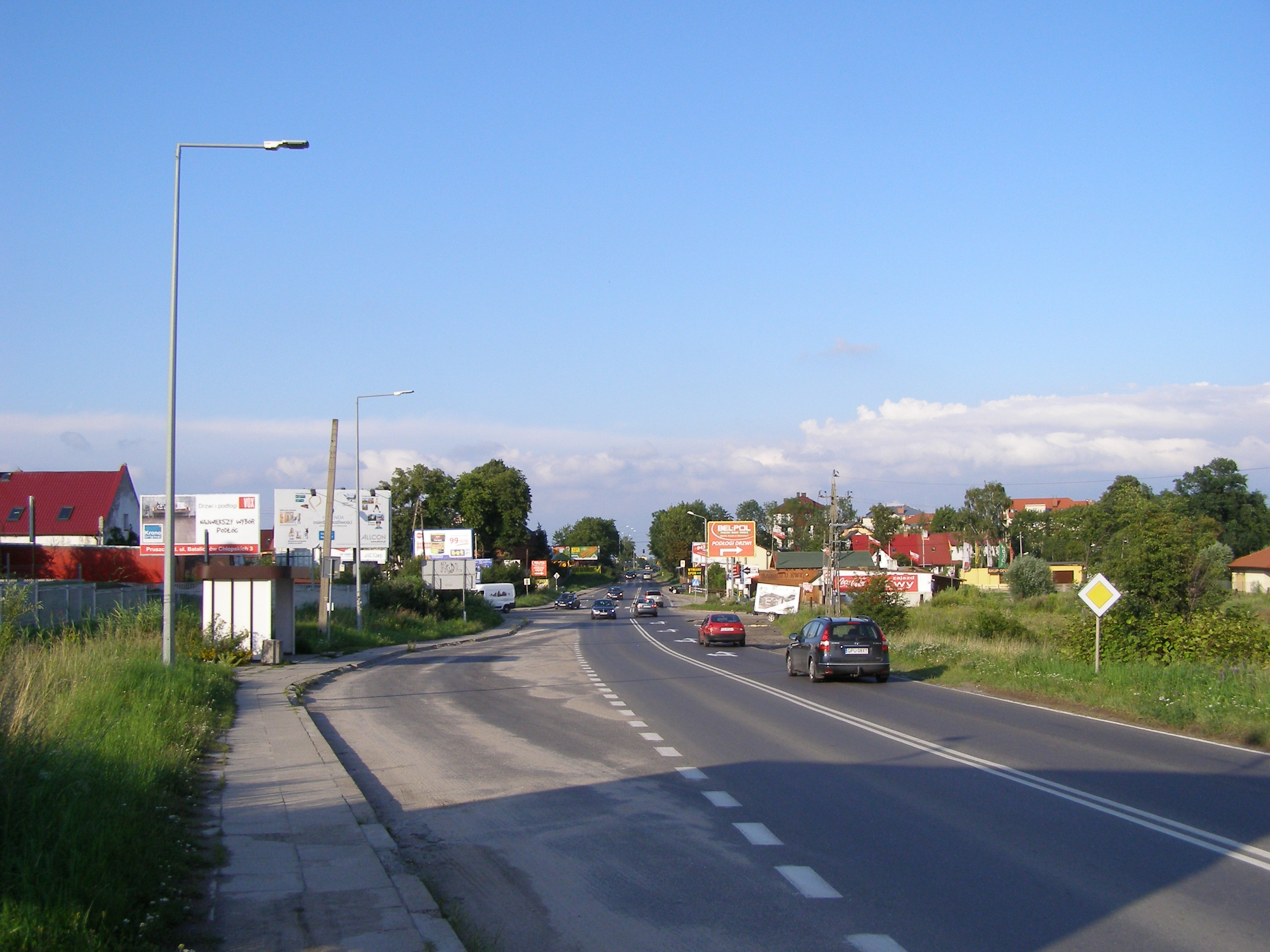 Kowale - voivodeship road No. 221, Staropolska str.